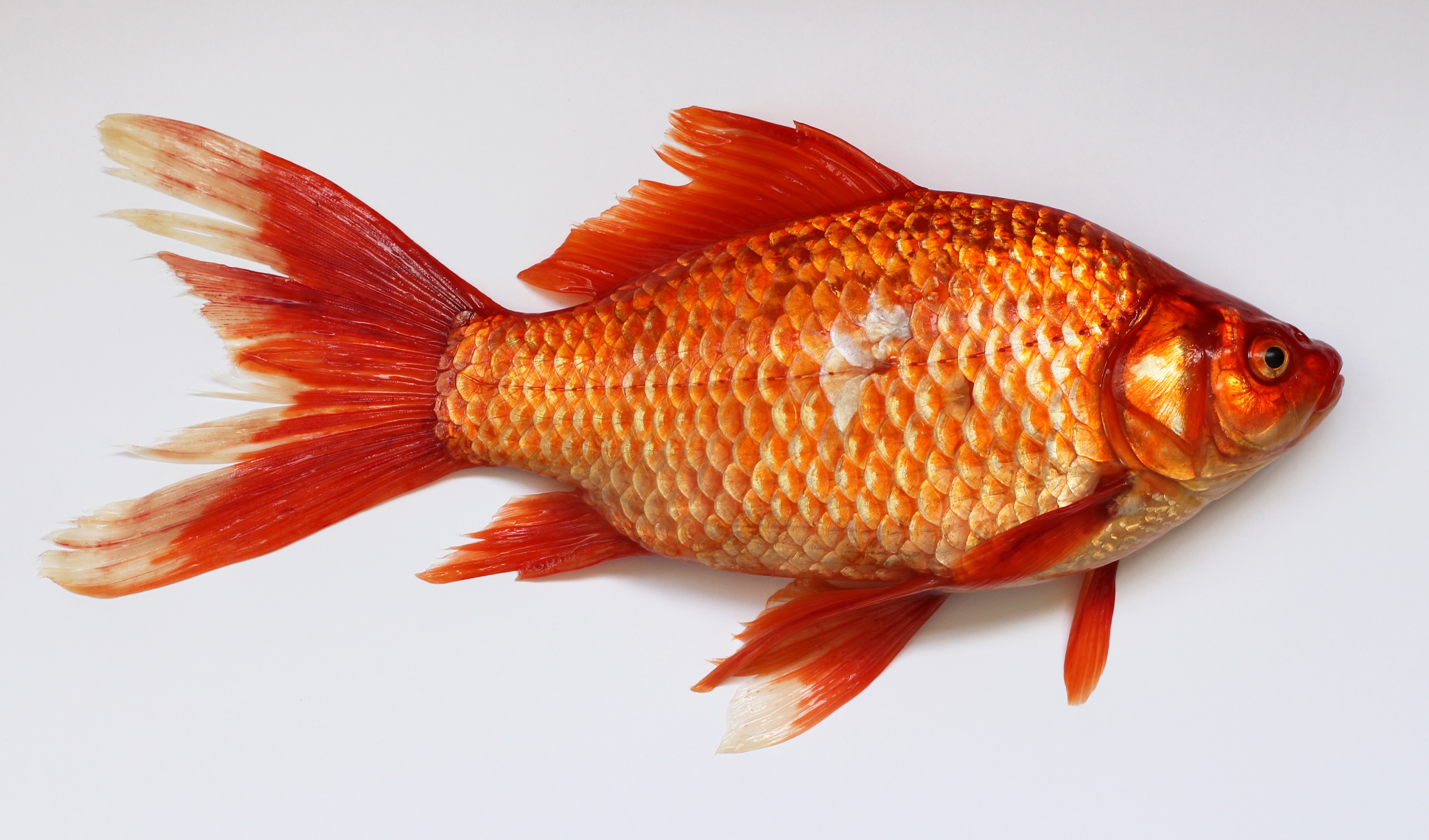 Prussian carp (Carassius gibelio). Mutation of an red color alike golden fish. Was caught in wild near Vinnitsa, Ukraine. Full length with caudal fin is 244 mm.